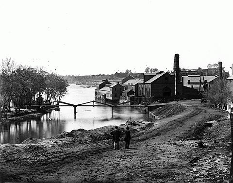 Tredegar Iron Works photograph by Alexander Gardner